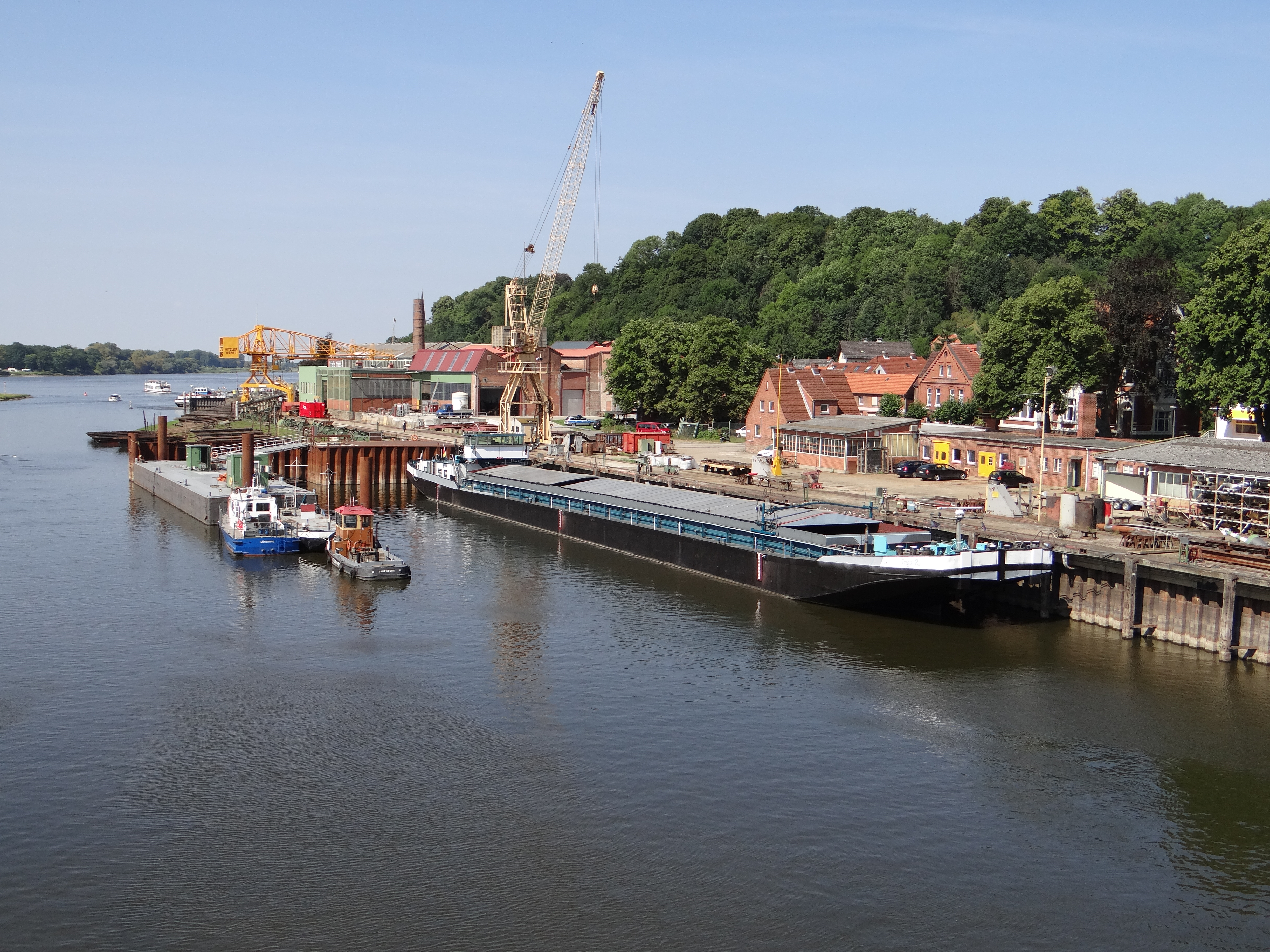 Hitzler ship yard in Lauenburg, Germany